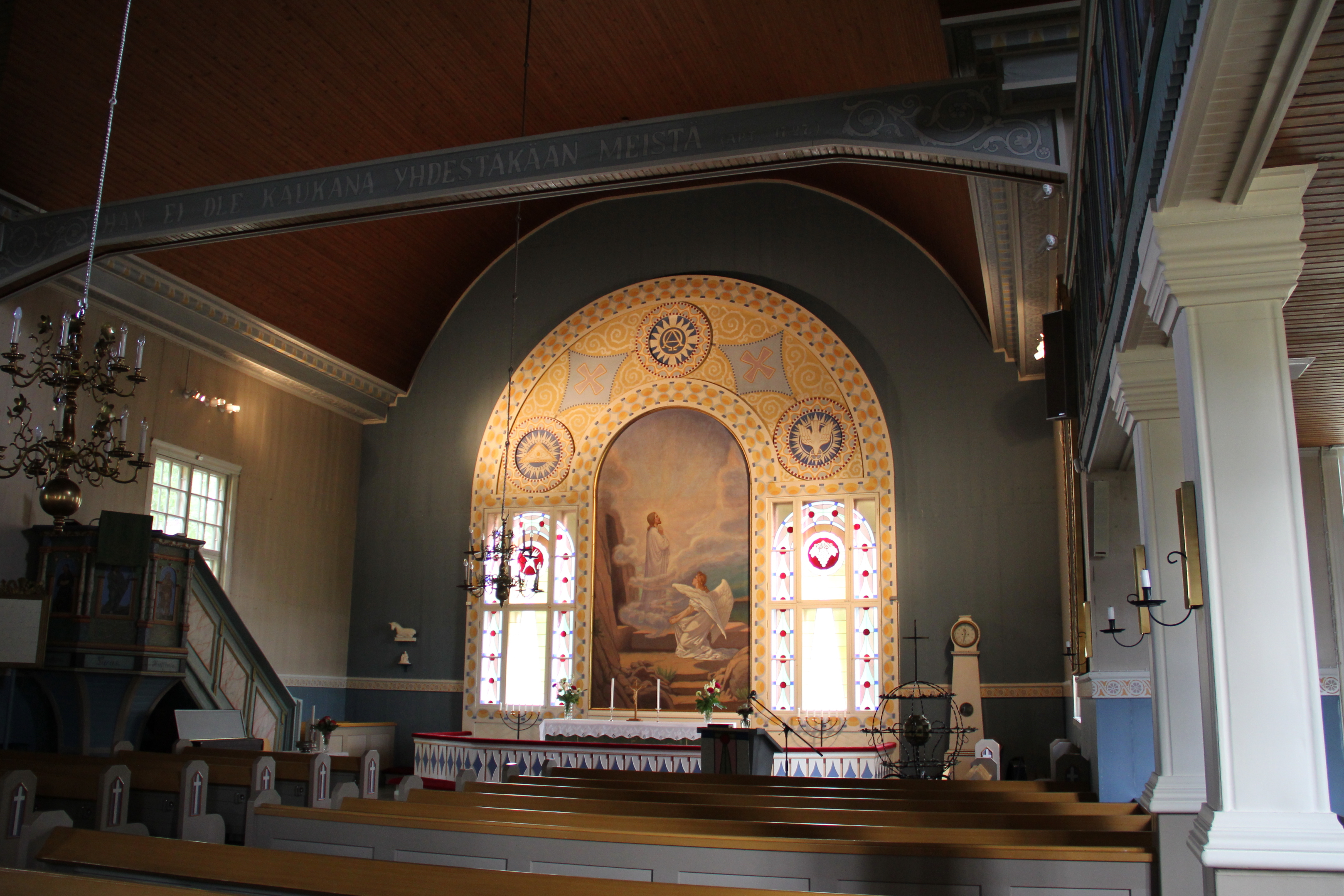 Tarvasjoki church, Tarvasjoki, Finland. Completed in 1779, built by Mikael Piimänen. The interior was renovated in 1916, it was designed by architect Ilmari Launis and it looks almost the same nowadays. Pulpit and altar.